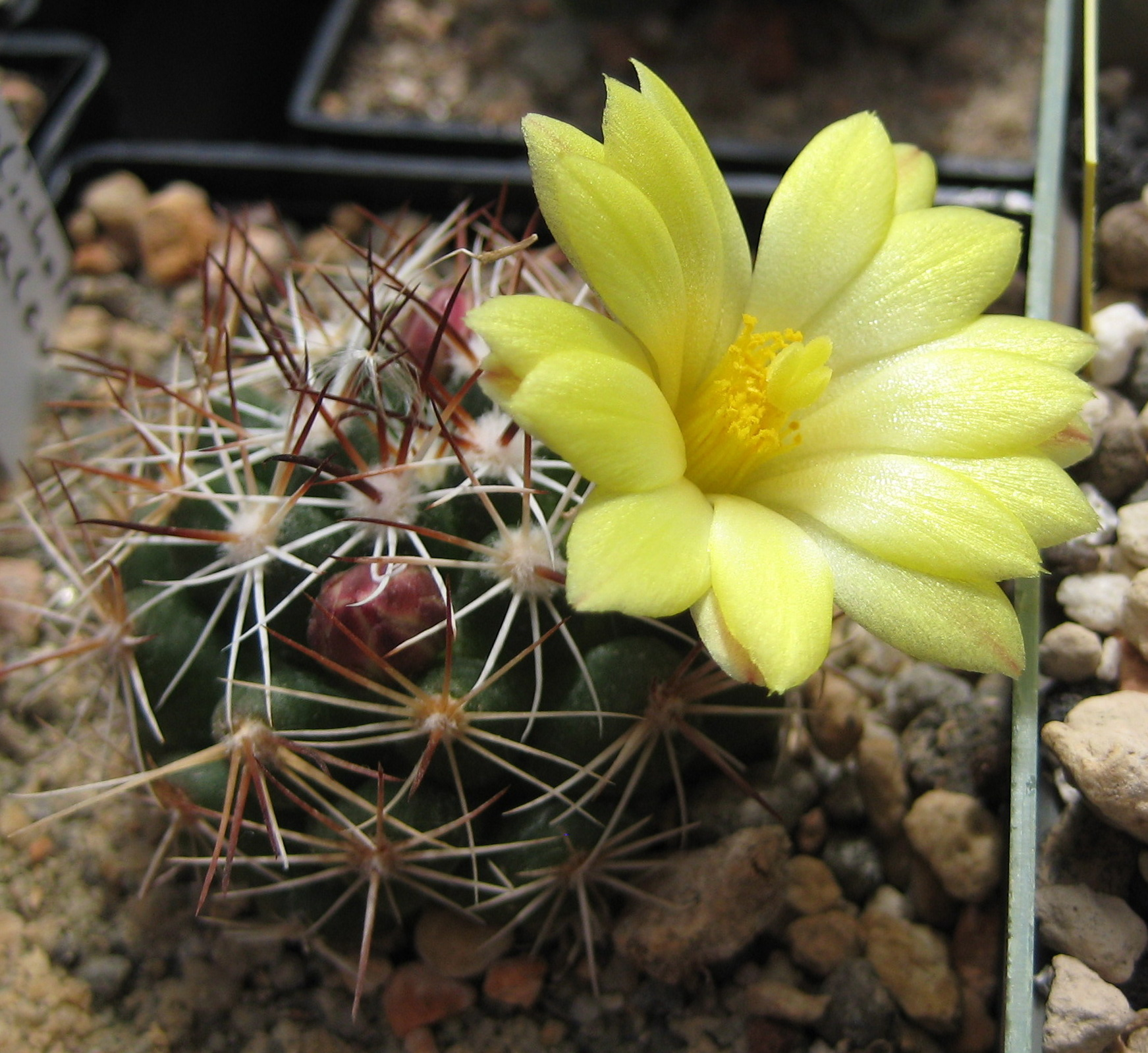 Dolichothele melaleuca